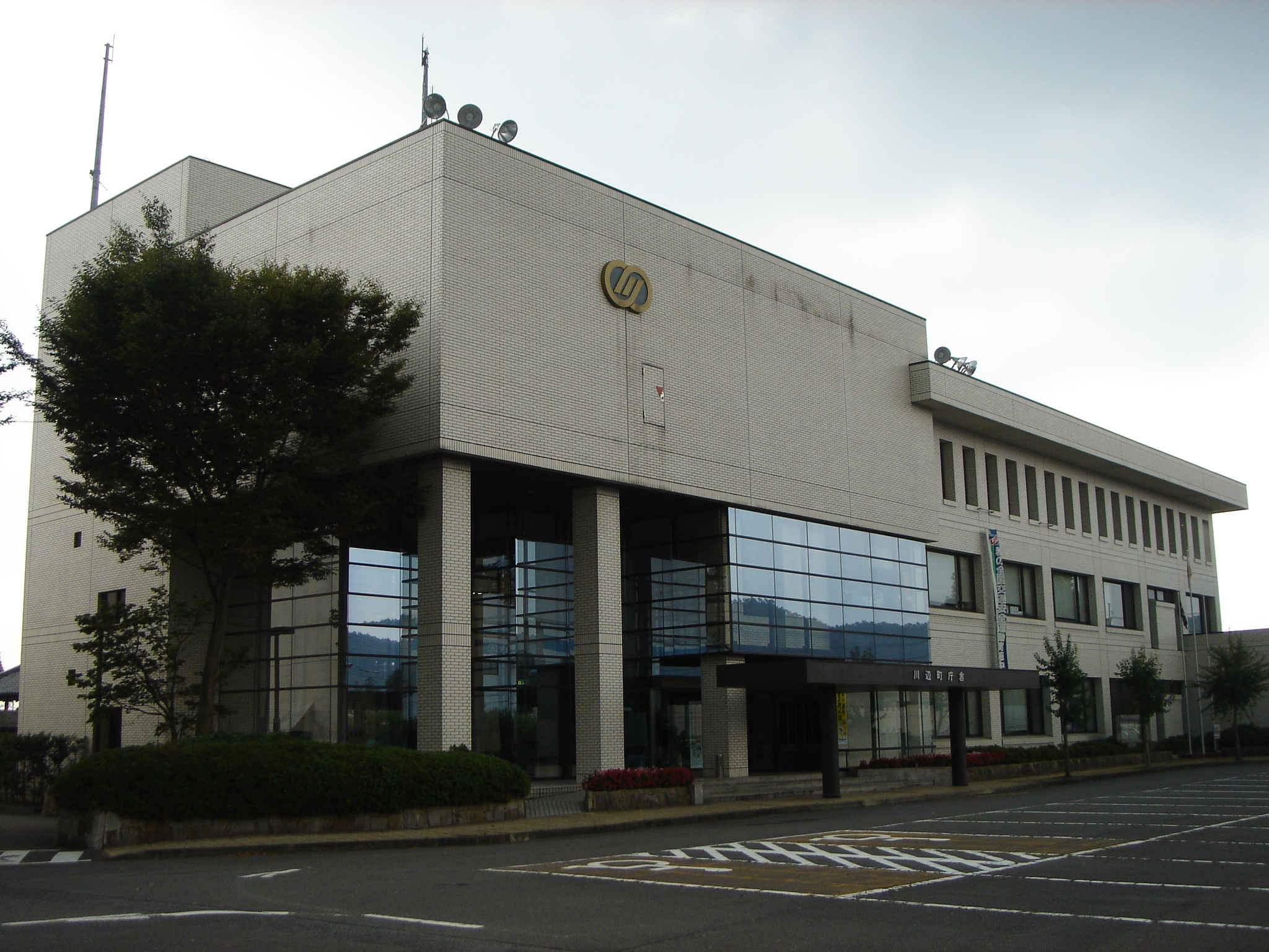 Kawabe town office（川辺町 (岐阜県)役場）,Kawabe,Gifu,Japan(岐阜県川辺町)で撮影。